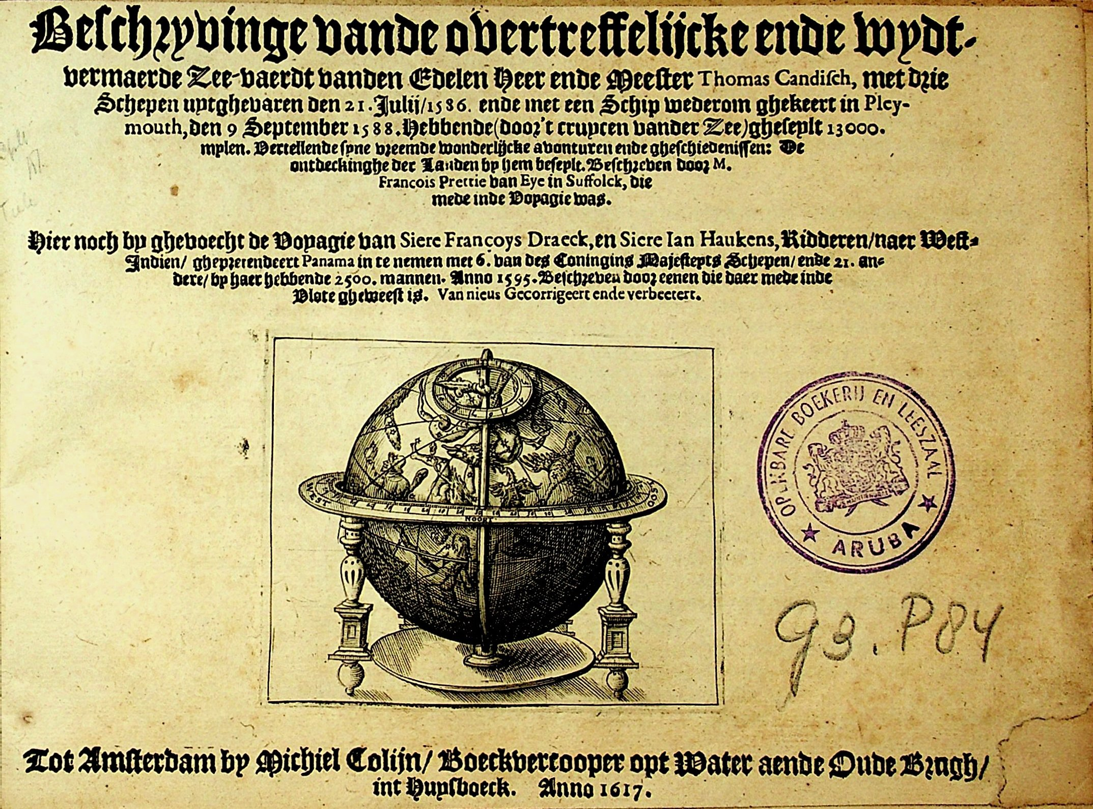 Title Page of Emanuel van Meteren's publication of Francis Pretty's accounts of his travels with with Sir Francis Drake (1577-1580) and with Thomas Cavendish (1588) Full title: Beschryvinge vande overtreffelijcke ende wydtvermaerde zee-vaerdt vanden edelen heer ende meester Thomas Candisch, met drie schepen uytghevaren den 21. Julij 1586. ende met een schip wederom ghekeert in Pleymouth, den 9 september 1588. Hebbende (door het cruycen vander Zee) geseylt 13000. mylen. Vertellende syne vreemde wonderlijcke avonturen ende gheschiedenissen: De ontdeckinghe der Landen by hem beseylt. Beschreven door M. Francois Prettie van Eye in Suffolck. die mede in de voyagie was. Hier noch by ghevoecht de voyagie van Siere Françoys Draeck, en Siere Ian Haukens, Ridderen, naer West-Indien ghepretendeert Panama in te nemen met 6. van des Coningins Majesteyts Schepen ende 21. andere bij haer hebbende 2500. mannen. Anno 1595. Beschreven door eenen die daer mede in de vlote gheweest is. Van nieus Gecorrigieert ende verbeetert. From the collection of Biblioteca Nacional Aruba